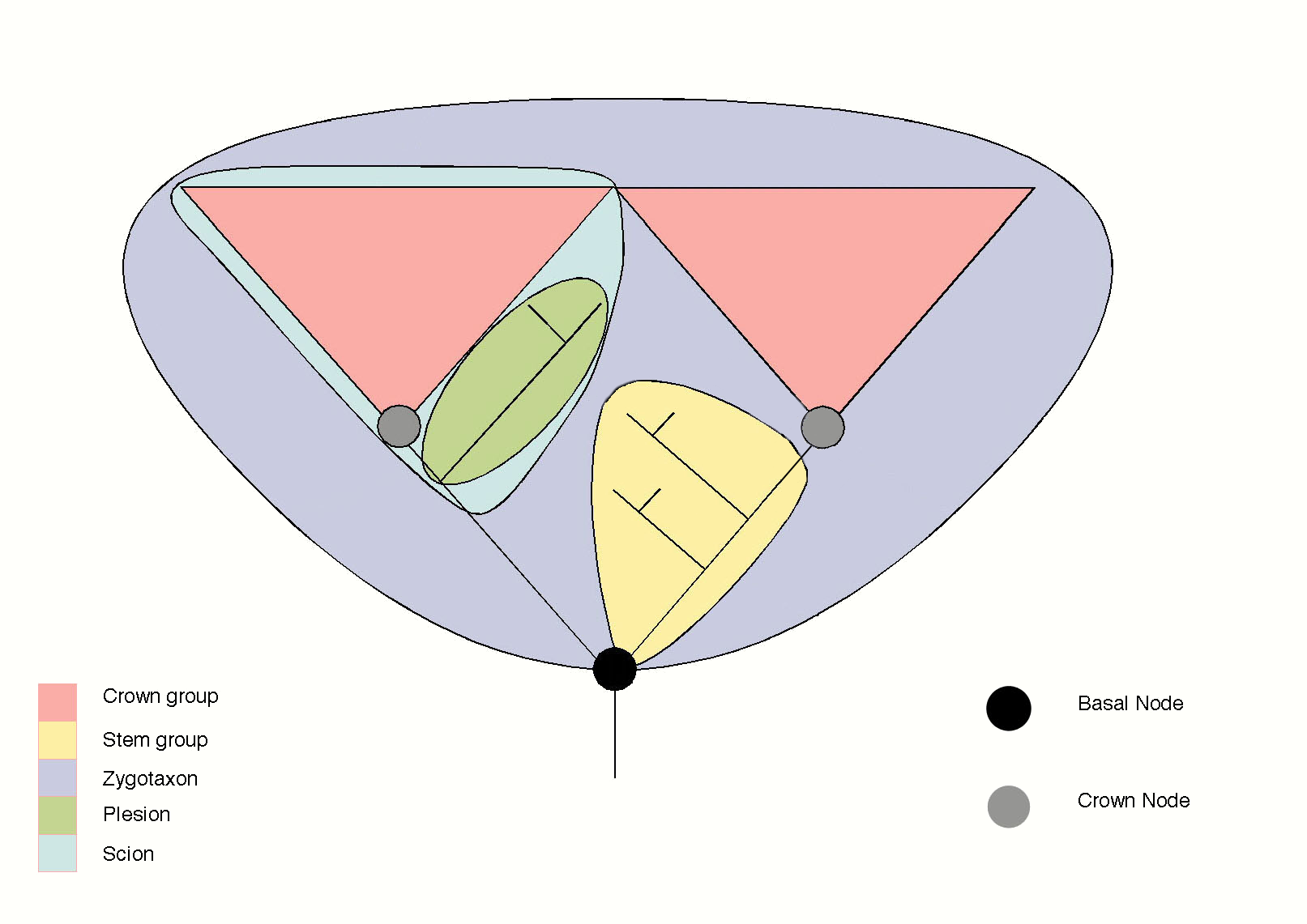 The stem and crown group concept. Revised from the original to clarify that the stem group does NOT include the basal node (ancestor) of the crown group.